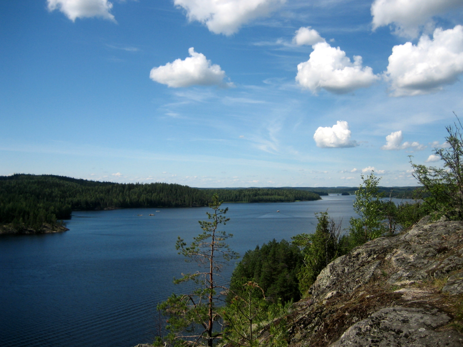 View from the top of Linnavuori